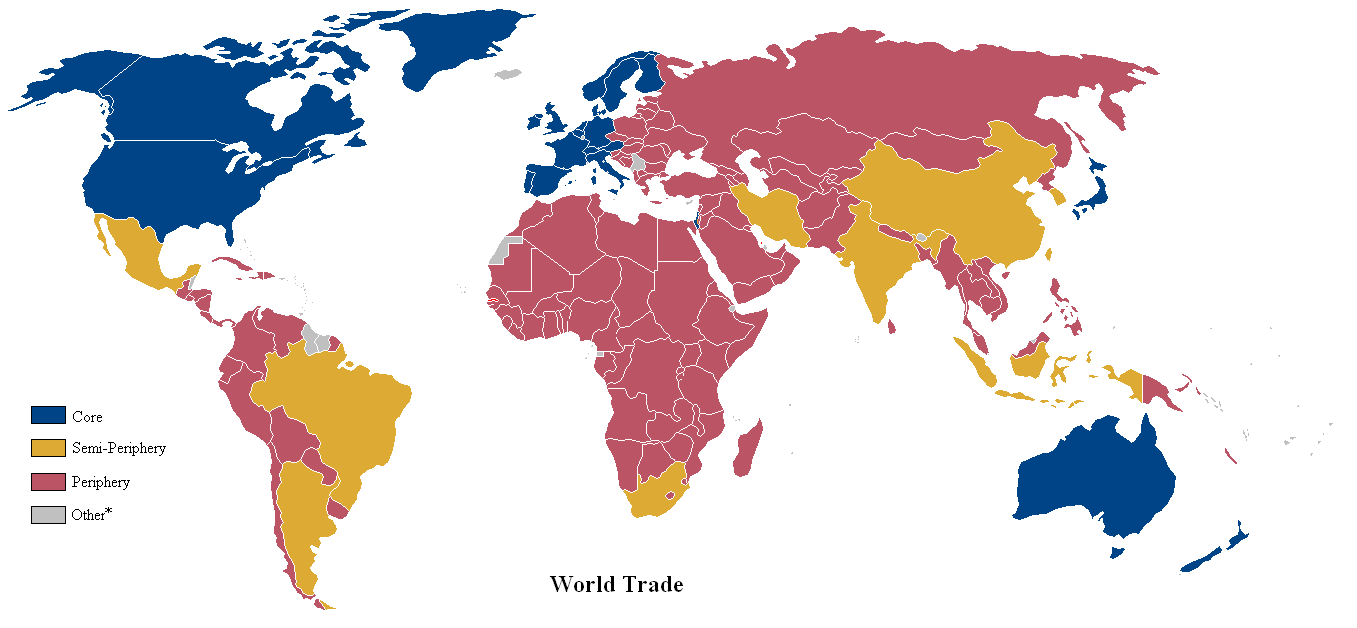 A world map of countries by trading status, late 20th century, using the world system differentiation into core countries, semi-periphery countries and periphery countries. Based on a list in Christopher Chase-Dunn, Yukio Kawano and Benjamin Brewer, Trade Globalization since 1795, American Sociological Review, 2000 February, Vol. 65 article, Appendix with the country list*Some countries with a population of less than one million were excluded from the analysis.